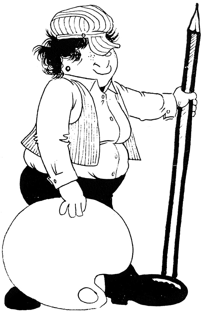 Leena Salmela cartoon selfportrait